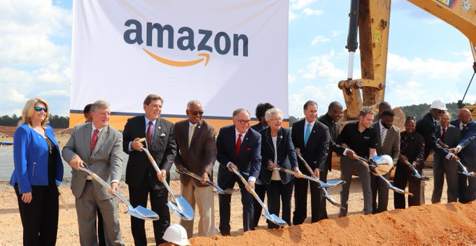 Pleased to attend the groundbreaking ceremony for the new Amazon fulfillment center in Bessemer. This $325 million facility is expected to employ 1500 people & will open next summer. I applaud Amazon's commitment to helping develop a workforce for high-tech jobs #AL06 #alpolitics